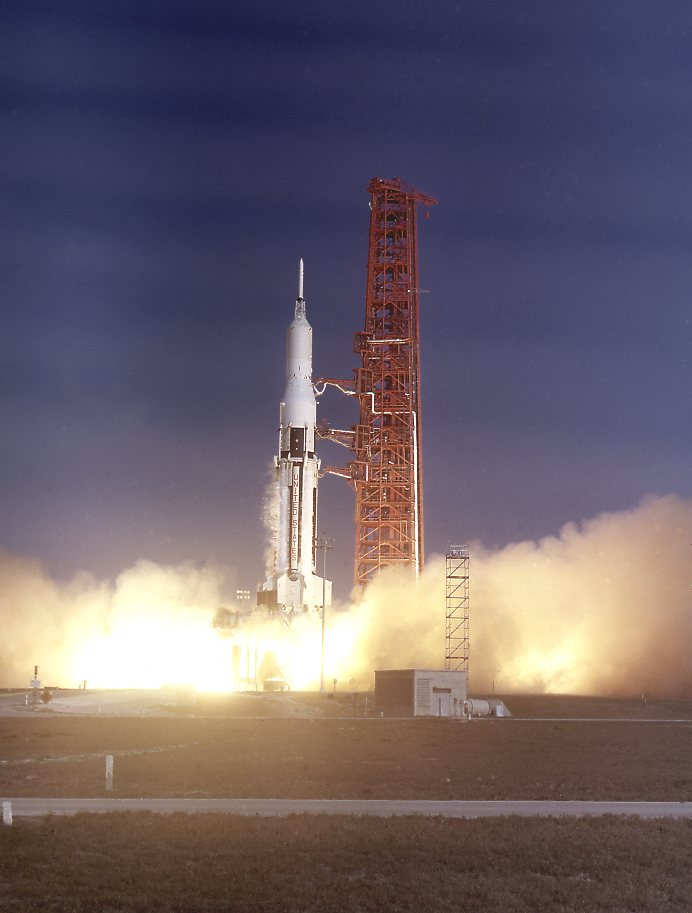 The SA-9 (Saturn I Block II), the eighth Saturn I flight, lifted off on February 16, 1965. This was the first Saturn with an operational payload, the Pegasus I meteoroid detection satellite. SA-9 successfully deployed the Pegasus I, NASA's largest unmarned instrumented satellite, into near Earth orbit.